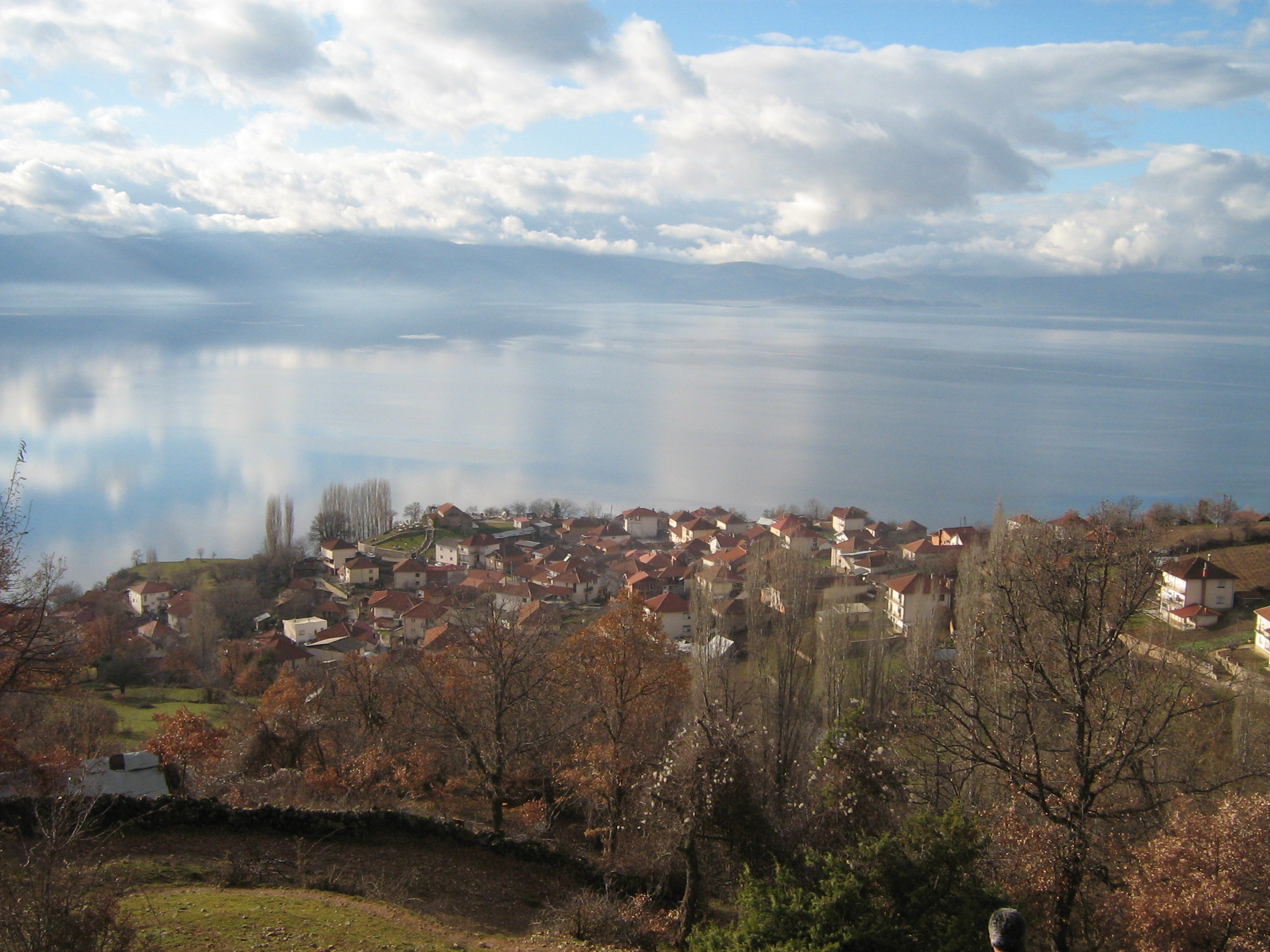 Depicted place: Elšani